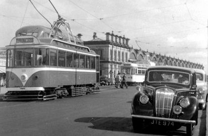 Fleetwood railway station, Lancashire - August 1959